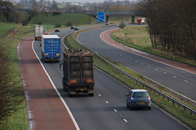 The M1 at Drumbane (1) See 300864. This is the view towards the former from the bridge at Drumbane. The bridge carries the Drumbane Road and is close to Drumbane level crossing. Continue to 307911.